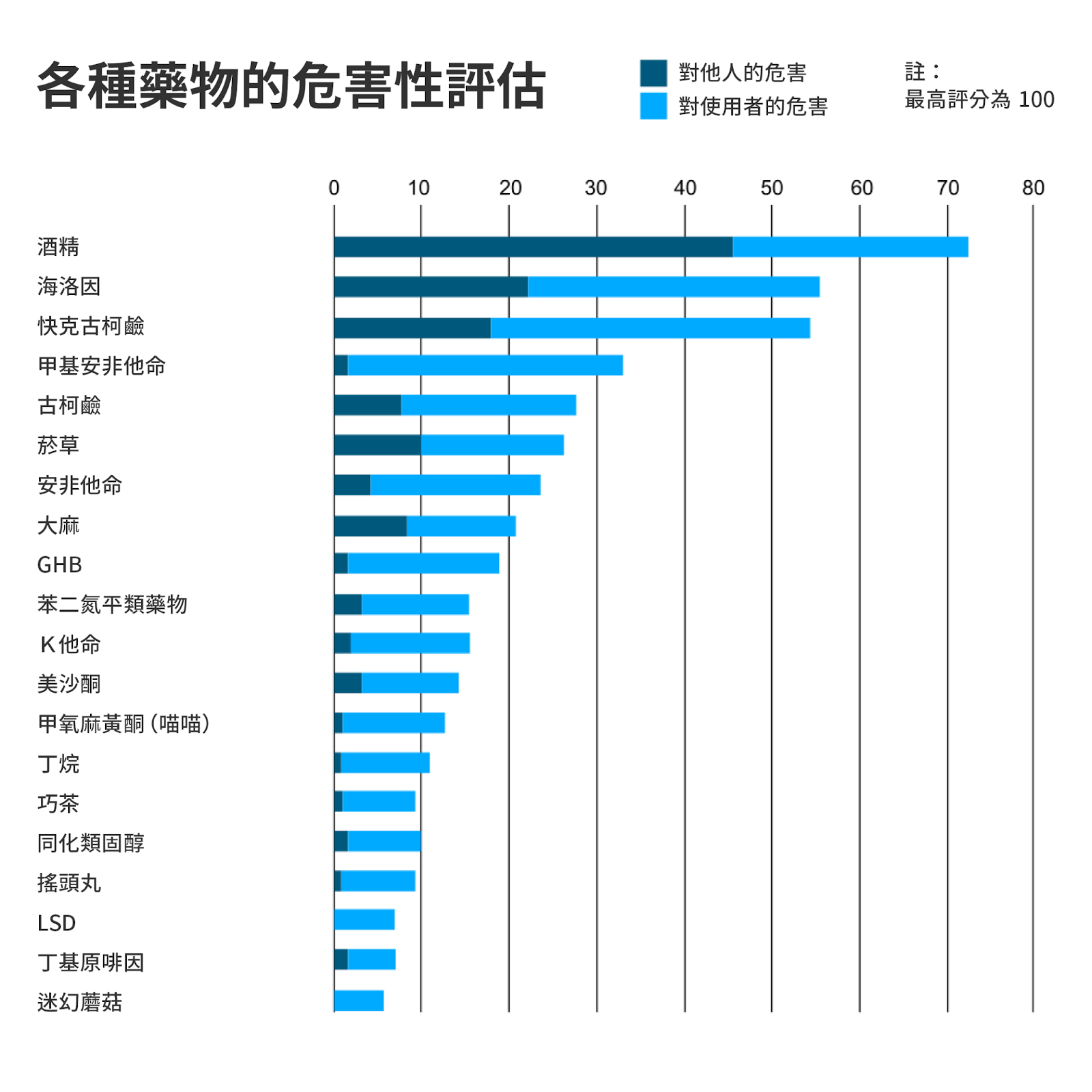 Researchers asked drug-harm experts to rank these illegal and legal drugs on various measures of harm both to the user and to others in society. These measures include damage to health, drug dependency, economic costs and crime. The researchers claim that the rankings are stable because they are based on so many different measures and would require significant discoveries about these drugs to affect the rankings. Note that alcohol (despite being legal more often than the other drugs) is by far the most harmful; not only is it the most damaging to societies, it is also the fourth most dangerous for the user. Most of the drugs were rated significantly less harmful than alcohol, with most of the harm befalling the user. The authors explain that one of the limitation of this study is that drug harms are functions of their availability and legal status in the UK, and so other cultures' control systems could yield different rankings.